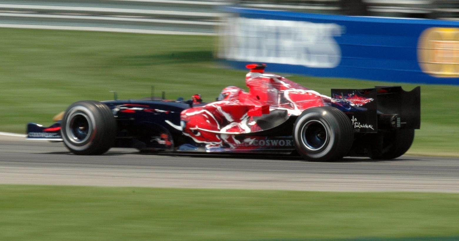 Vitantonio Liuzzi driving for Scuderia Toro Rosso at the 2006 United States Grand Prix.